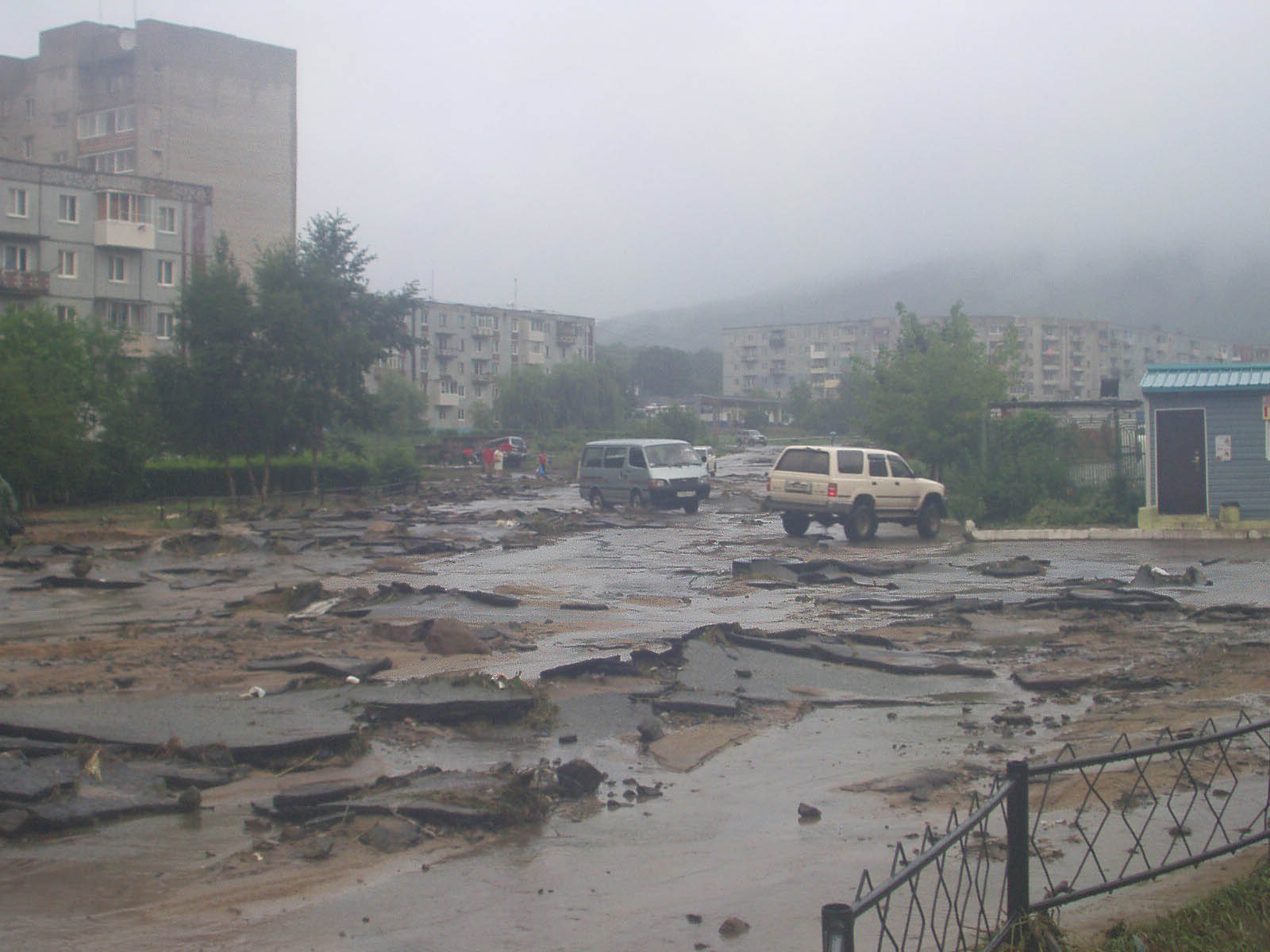 Autoroad in Vrangel was damaged by typhoon, Summer 2008